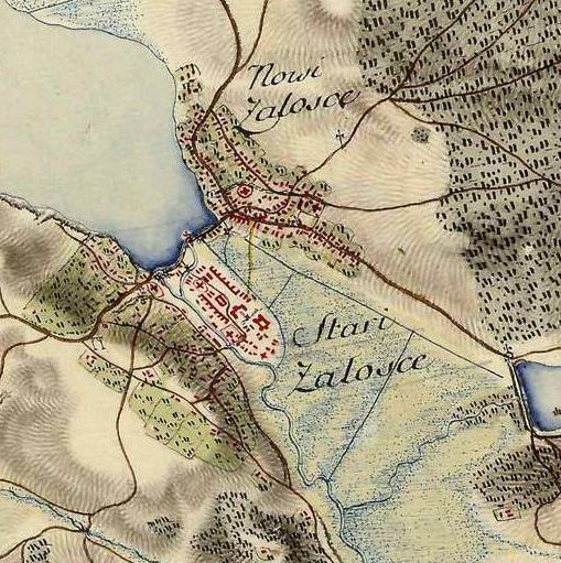 Nowi und Stari Załosce 1787